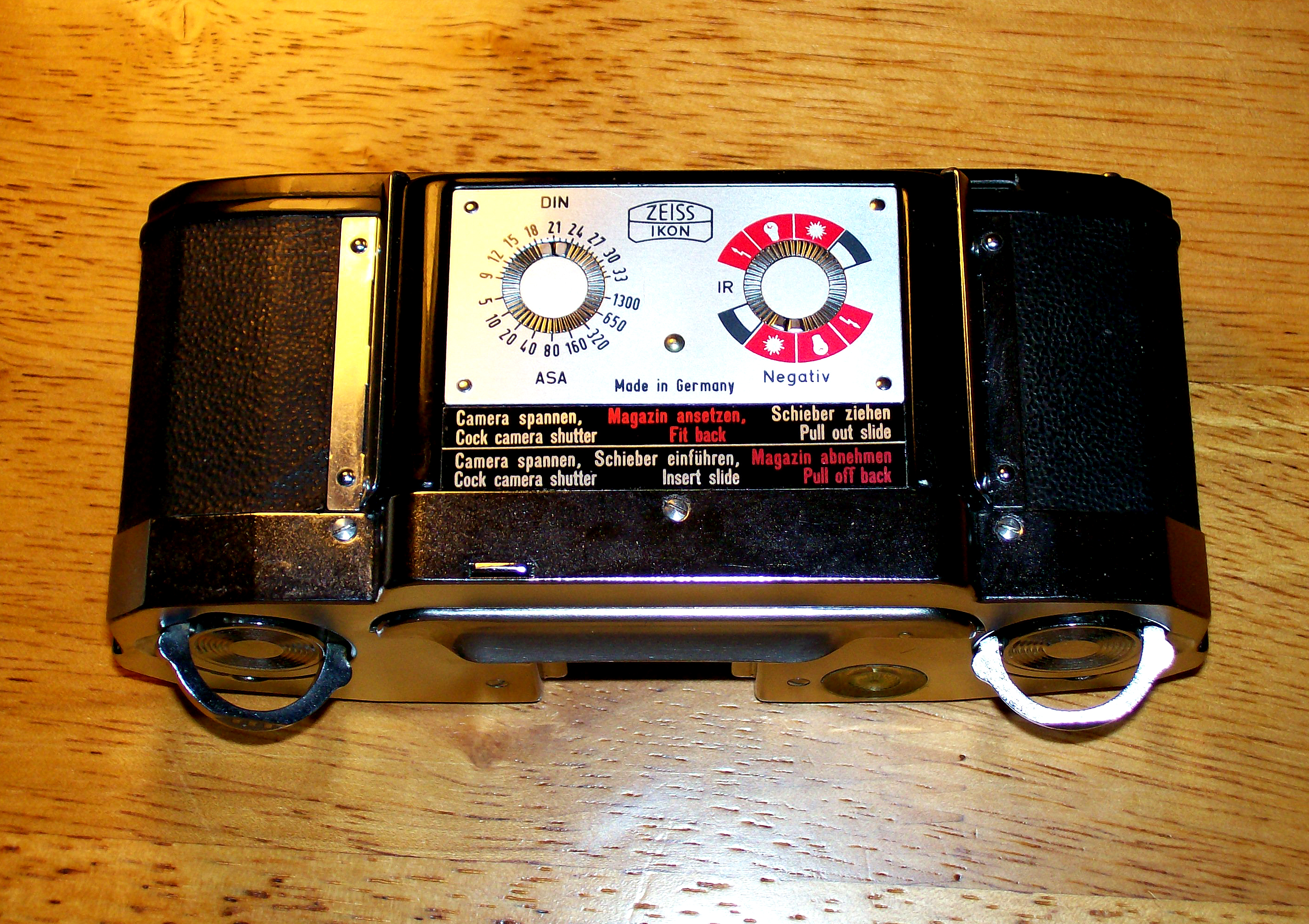 Contaflex SuperB film back康泰单反相机胶片盒